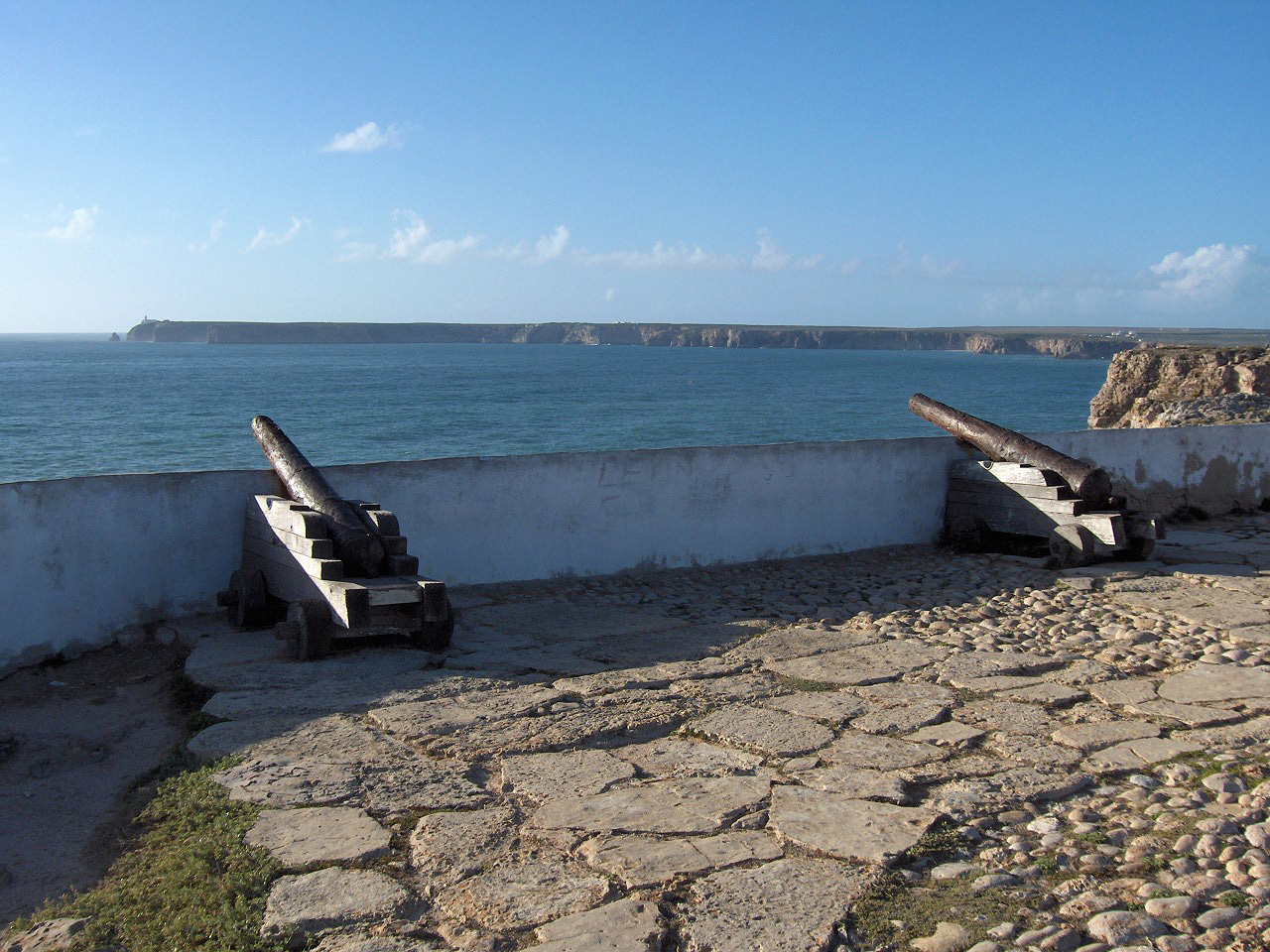 Cannons pointing to the Atlantic Ocean; Fortress of Sagres; (in the background Cape St. Vincent); Sagres, Portugal.